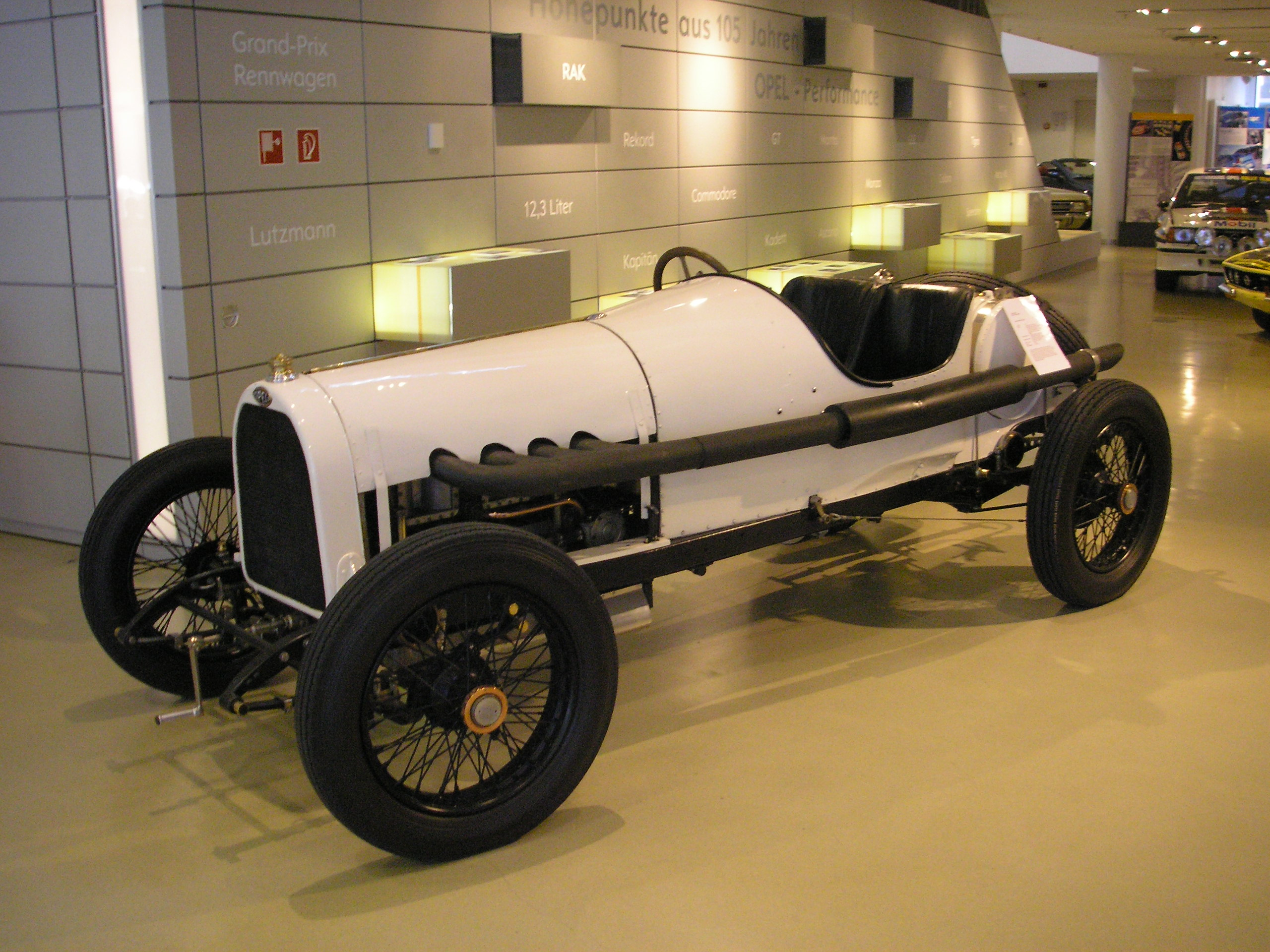 Description: Opel Grand Prix Rennwagen, im Opel Zentrum in Berlin an der Friedrichstraße. Baujahr 1913, Vierzylinder, 4,0 Liter, 110 PS. The Opel Grand Prix Racing car, image taken at the Opel Zentrum in Berlin at Friedrichstraße. Model of around 1913 or after. Source: self-made, I release it into the public domain.